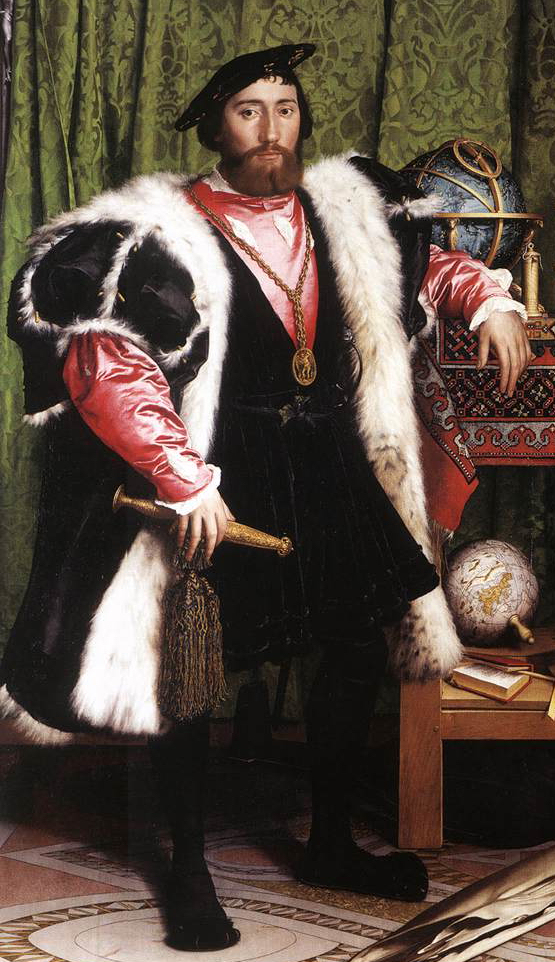 Jean de Dinteville, aged 29, 1533. Detail of The Ambassadors Jean de Dinteville was the French ambassador to England in 1533.